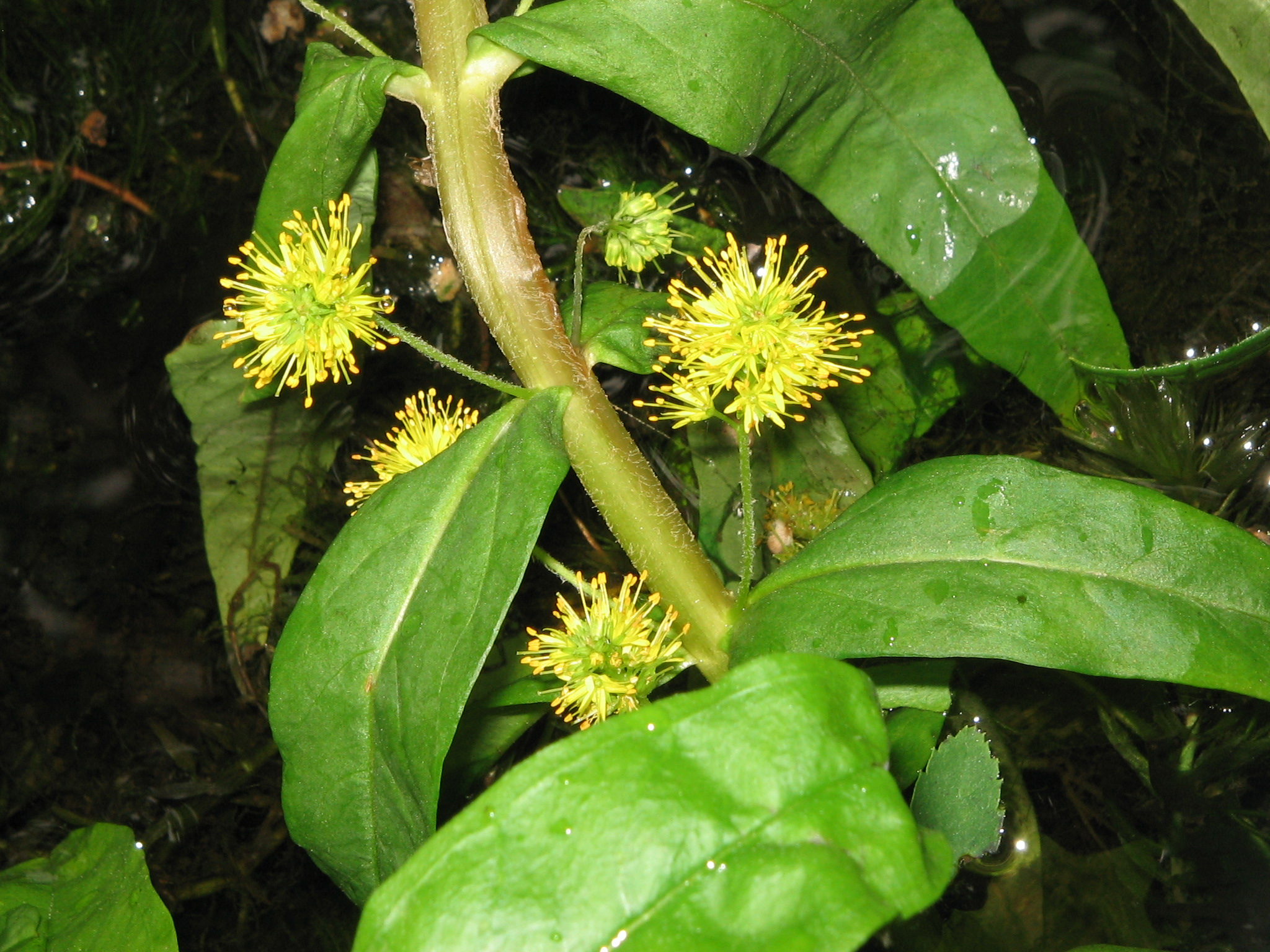 Lysimachia thyrsiflora close-up